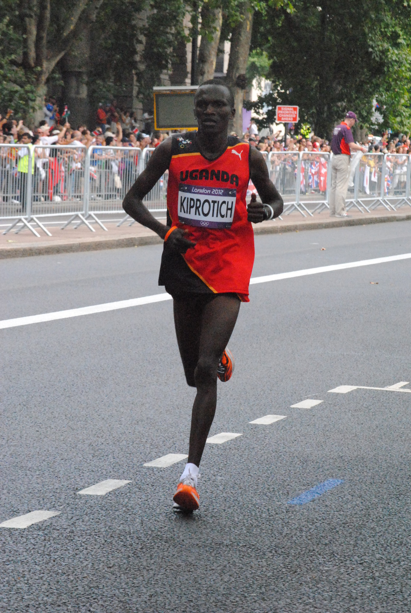 The men's marathon of the 2012 Summer Olympics in London, UK took place on an Olympic marathon street course on Sunday 12th August 2012 at 11:00. This was the final day of the 30th Olympic Games. The London 2012 marathon course is the standard Olympic distance of 26 miles 385 yards and consists of one short lap of approx 2.2 miles followed by three longer laps of 8 miles. The course began on The Mall and travelled past several of the most famous London landmarks. The start/finish line was near the Victoria Memorial. These photographs were taken at the Victoria Embankment. Stephen Kiprotich won in 2 hours, 8 minutes, 1 second as he pulled away from the Kenyan duo of Abel Kirui and Wilson Kiprotich Kipsang.